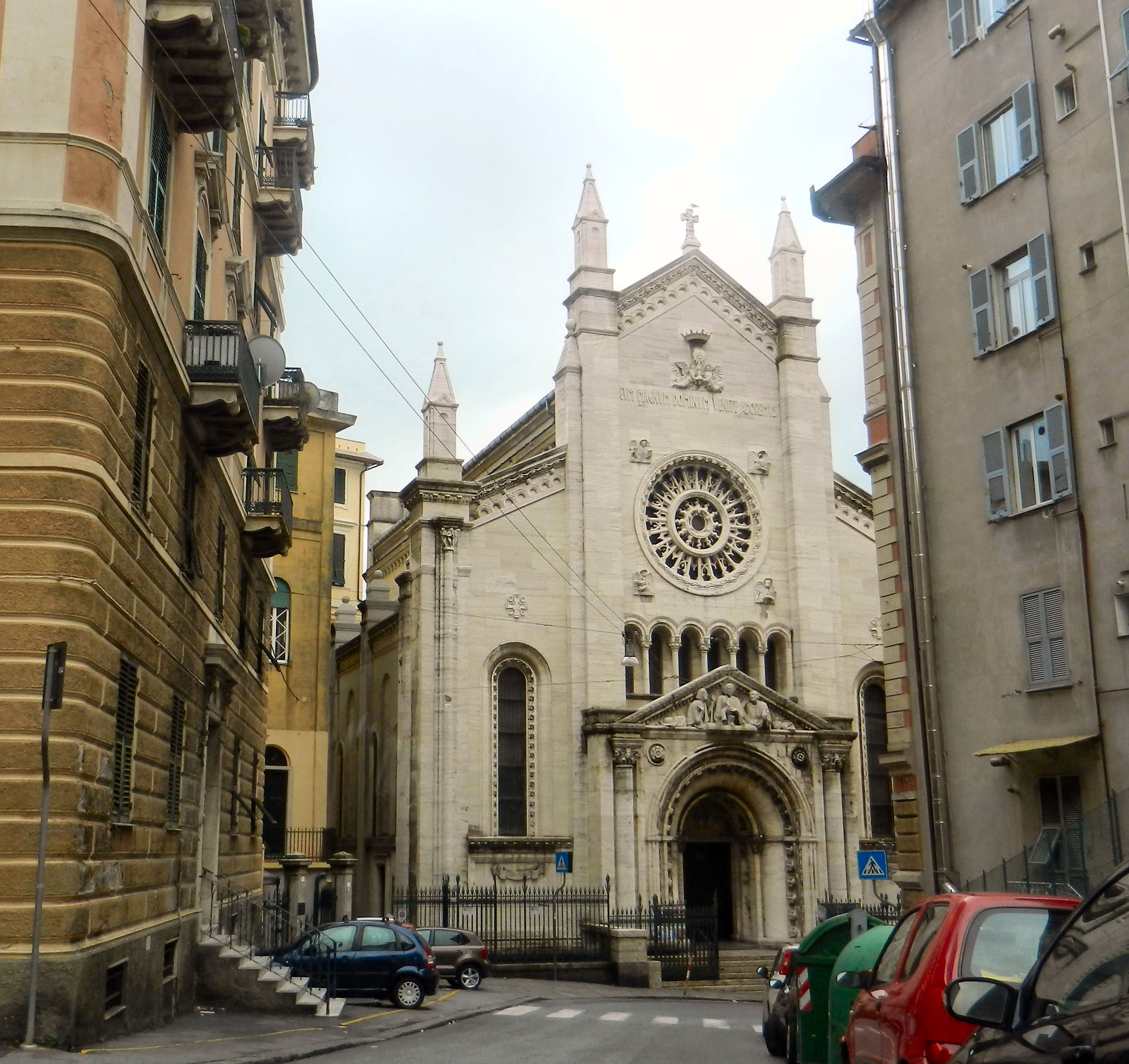 Genoa, Italy, quarter of Sampierdarena, church of Our Lady of Holy Sacrament